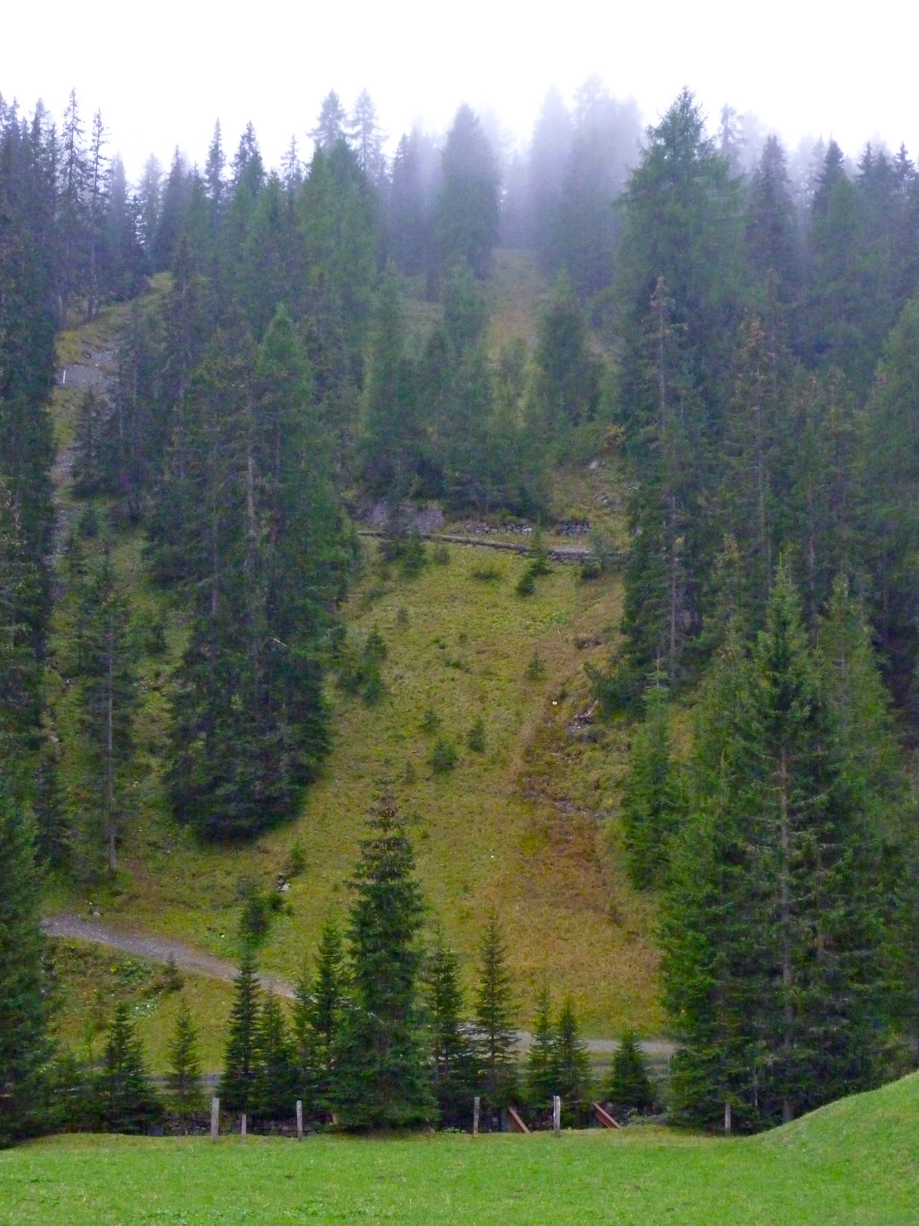 Old ski-jumping hill "Plessurschanze" at Arosa